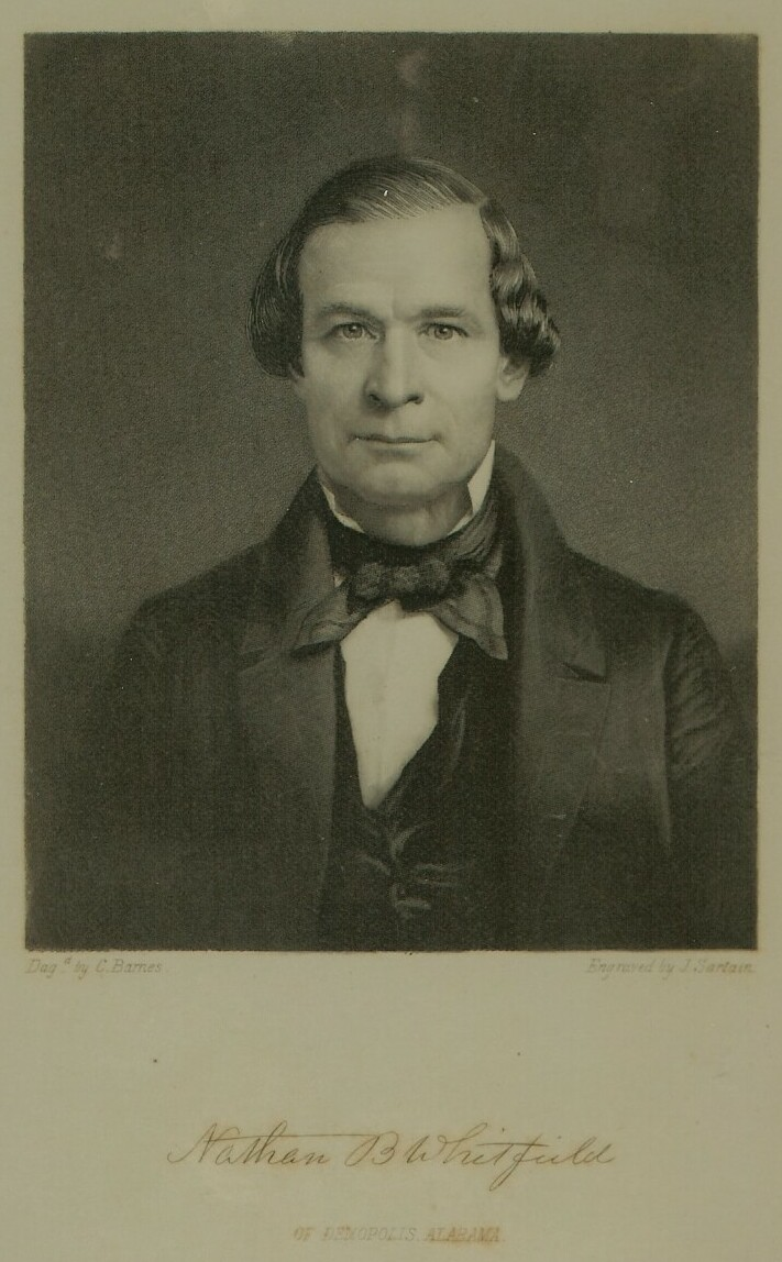 Nathan Bryan Whitfield Gaineswood Demopolis, Marengo County, Alabama